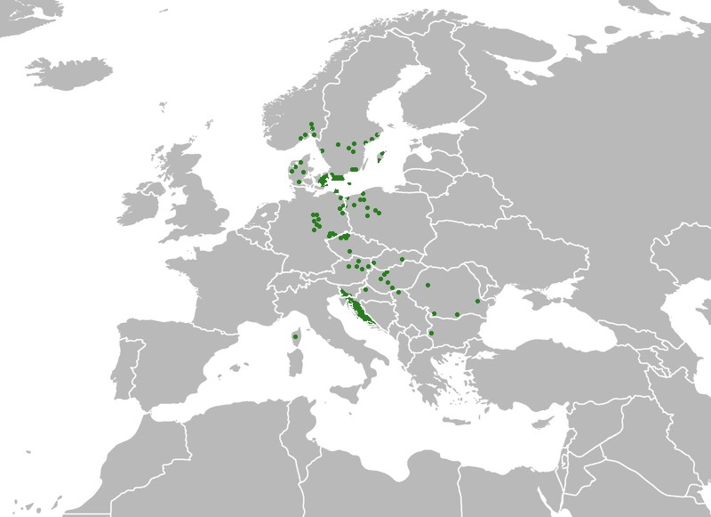 Corydalis pumila distribution. Source information: Meusel, Jager, Weinert: Vergleichende Chorologie der Zentraleuropaischen Flora. Jena